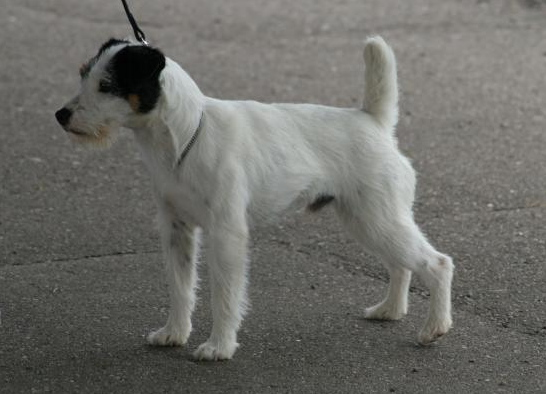 Photo of a Broken Coat Jack Russell Terrier, at JRTCA Terrier Trial 2006